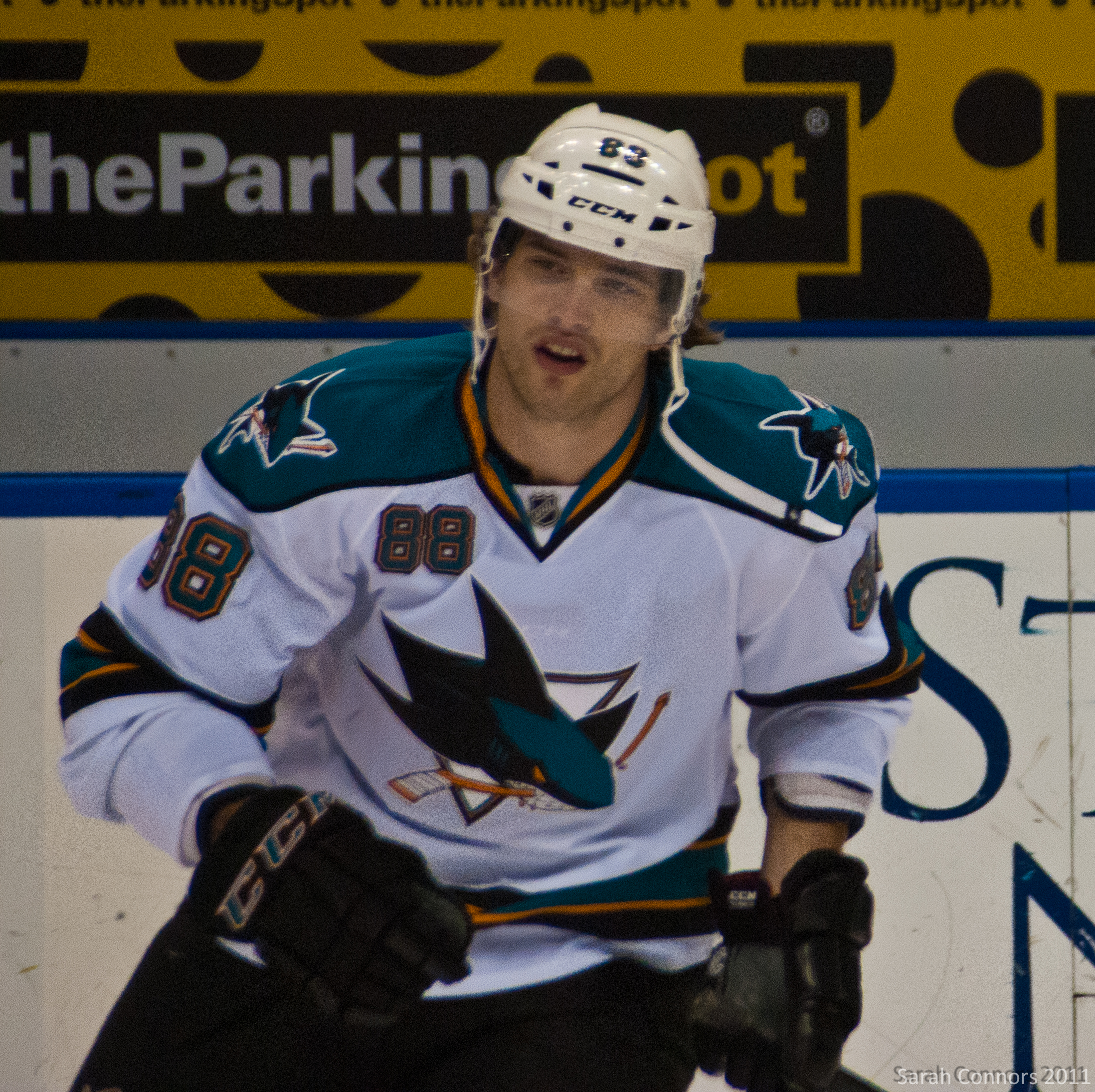 Brent Burns, Canadian ice hockey defenceman